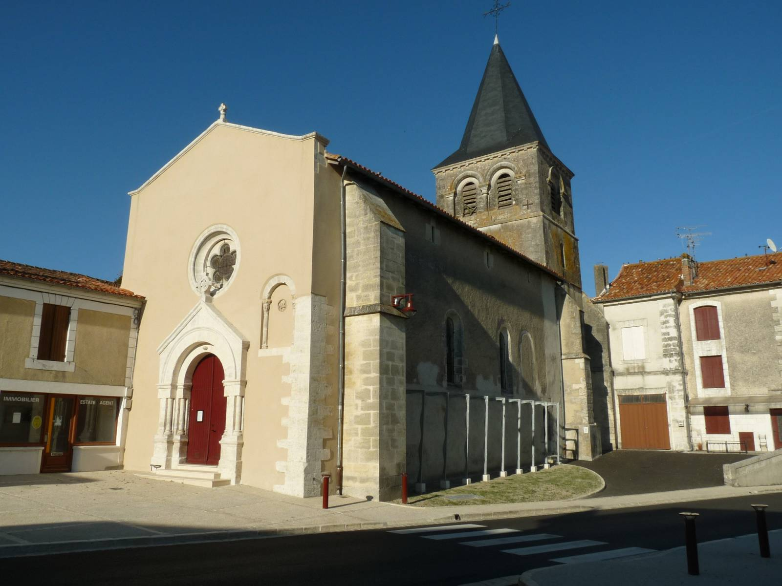 church